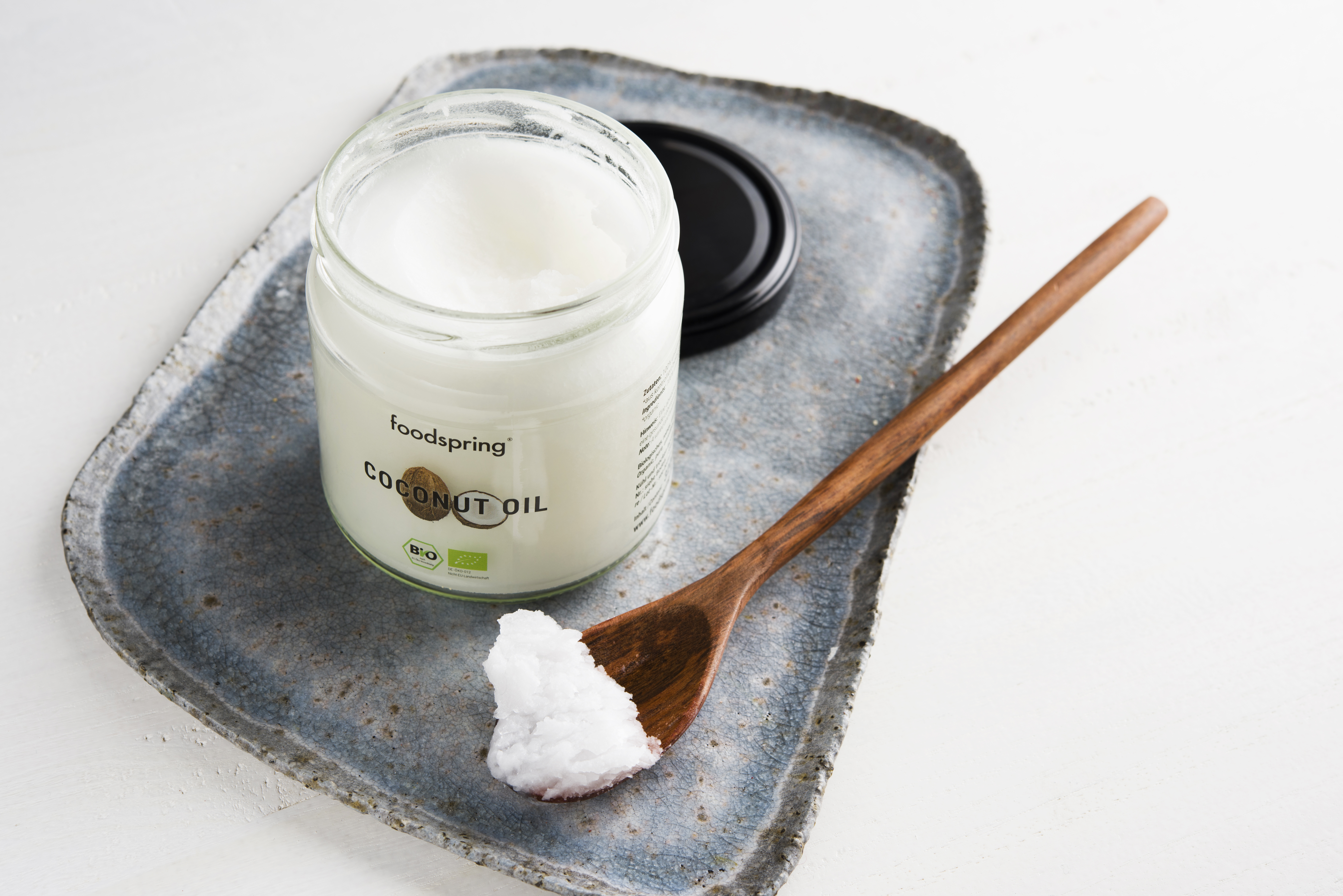 coconut oil mood picture